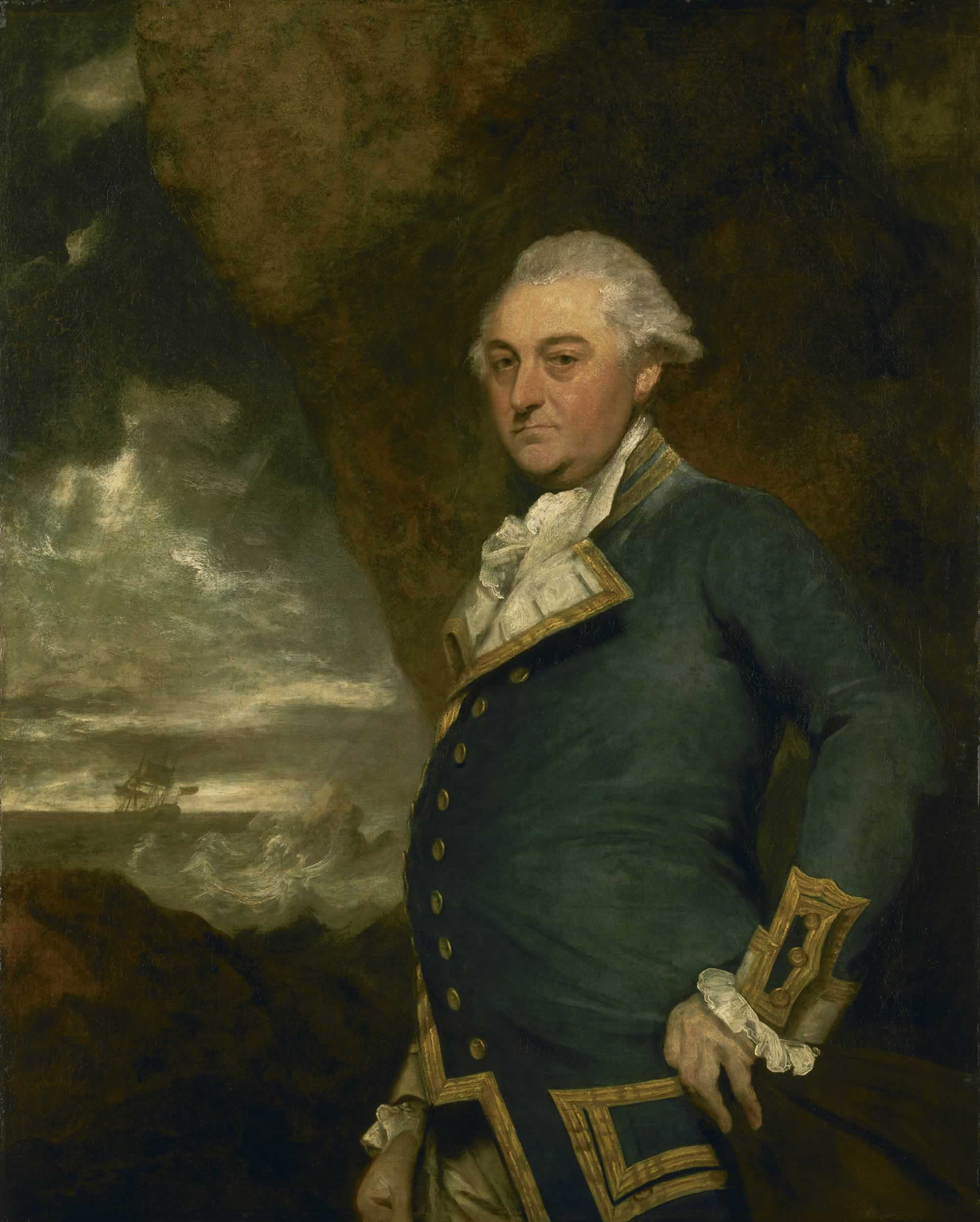 Captain John Gell, 1740-1805